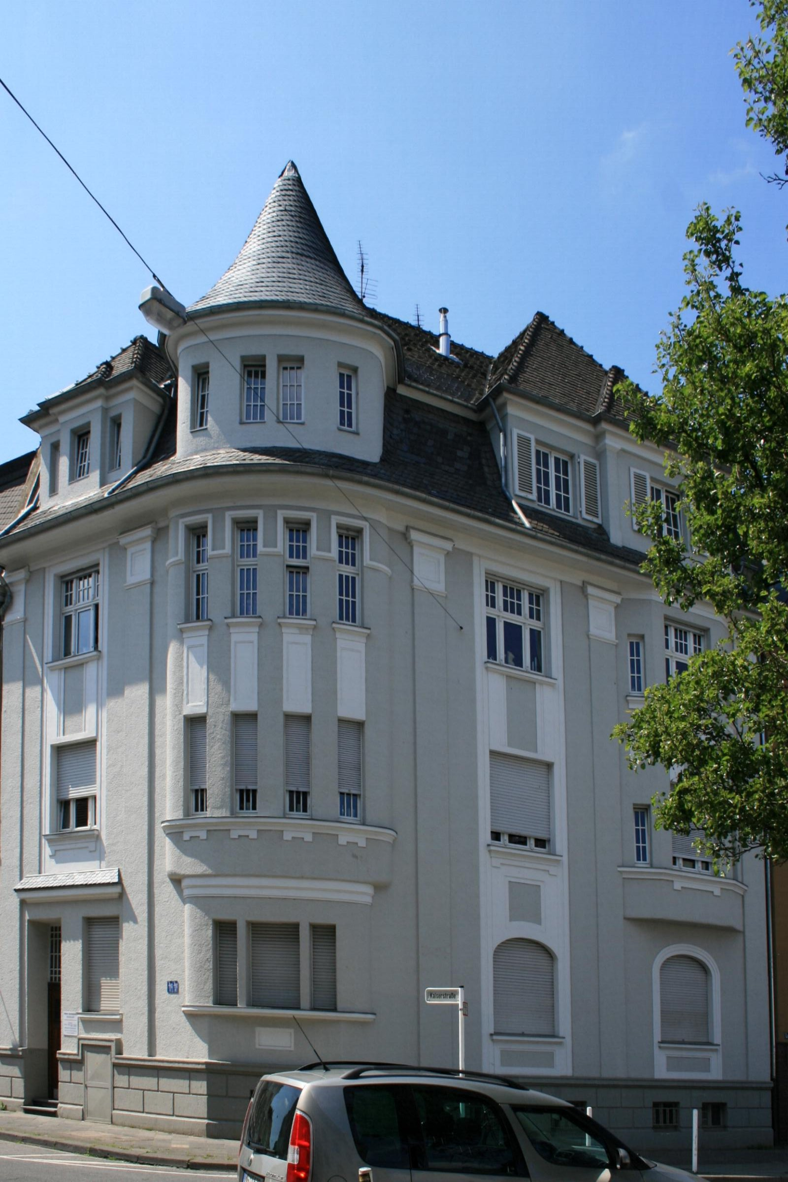 Cultural heritage monument No. K 070 in Mönchengladbach